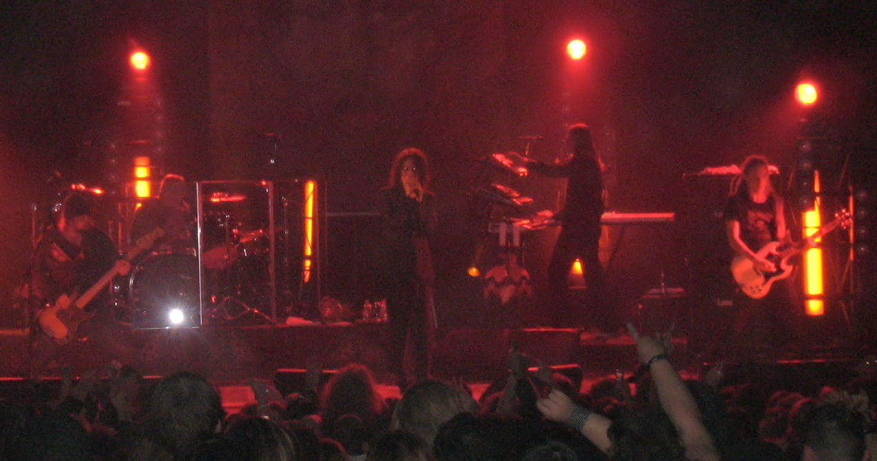 Finnish rock band HIM